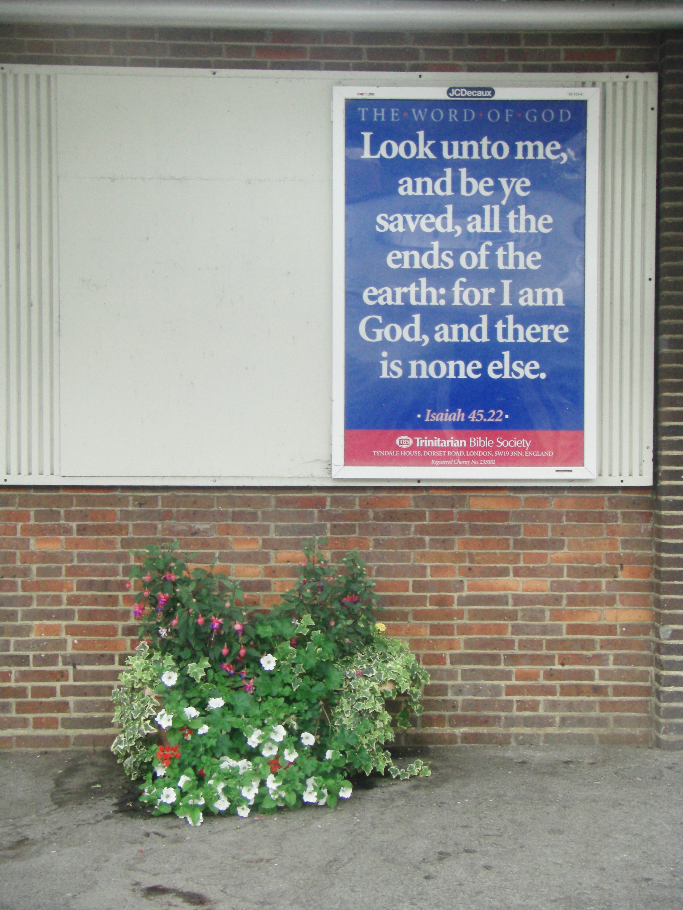 Photograph of the platform at Chichester Train Station, West Sussex, where the Trinitarian Bible Society have erected a poster. 2011.